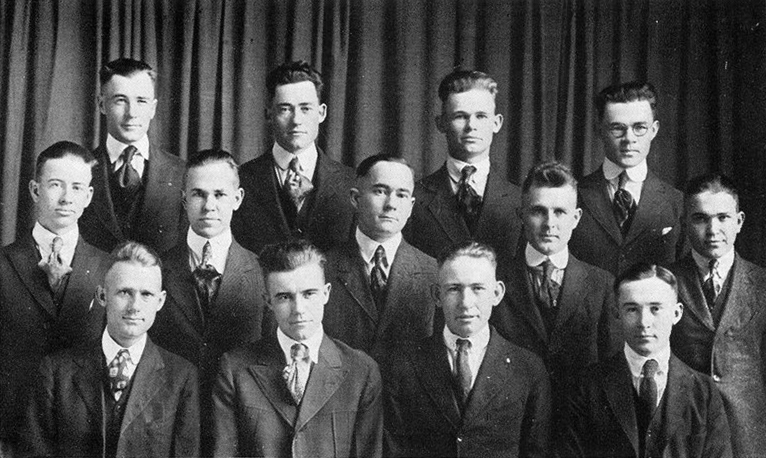 First known picture of Kappa Kappa Psi; picture shows the Alpha chapter in 1920. Top row, left to right: William Coppedge, William Scroggs, Dean Dale, Clayton Soule Middle row, left to right: Clarence Shaw, Raymond Shannon, Asher Hendrickson, A. Frank Martin, Gilbert Isenberg Bottom row, left to right: Clyde Haston, Dick Hurst, Carl Stevens, Carl Smelser